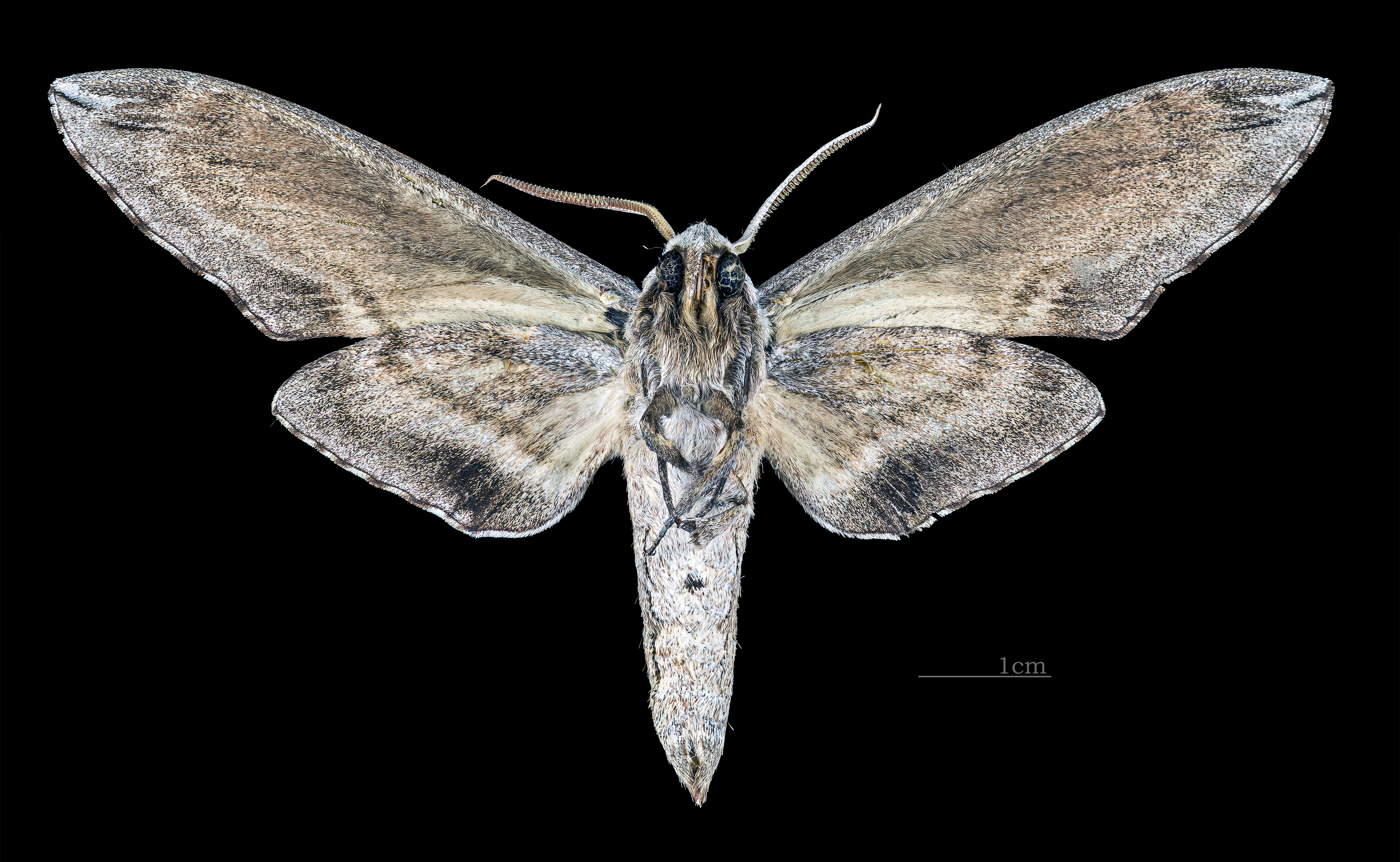 Sphinx franckii - △ Ventral side Collection of the Mathematician Laurent Schwartz